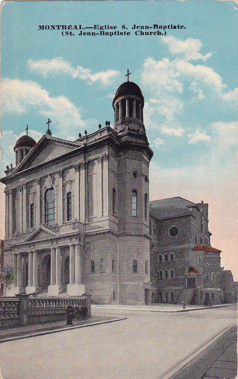 L'Église Saint-Jean-Baptiste de Montréal. Photo probablement antérieure à l'incendie de 1911. Carte postale c. 1910.